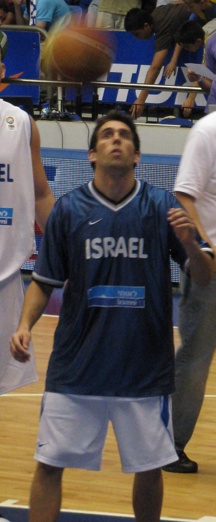 Moran Rot